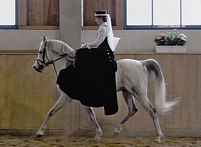 Abaco II (Jacio/Matena by Zancudo) x Hidra(Pepete/Khe Serra) Shown winning the Costume Class, Germany. Spanish-Related Stallion excelling in Dressage , Native Costume Bred by Rafael Catalan Casanovas, Yeguada Catalan, Sitges (Barcelona) Spain. Owned by Elizabeth Wolfram, Stadtmuhler Araber, Germany. Abaco II,1981 grey stallion (Jacio/Matena By Zancudo). Bred by the Yeguada Miitar. Noted for his jumping ability. Hidra, 1981 grey mare (Pepete/Khe Serra By Khenim) Bred by SZ Saltamontes/SZED, Spain.